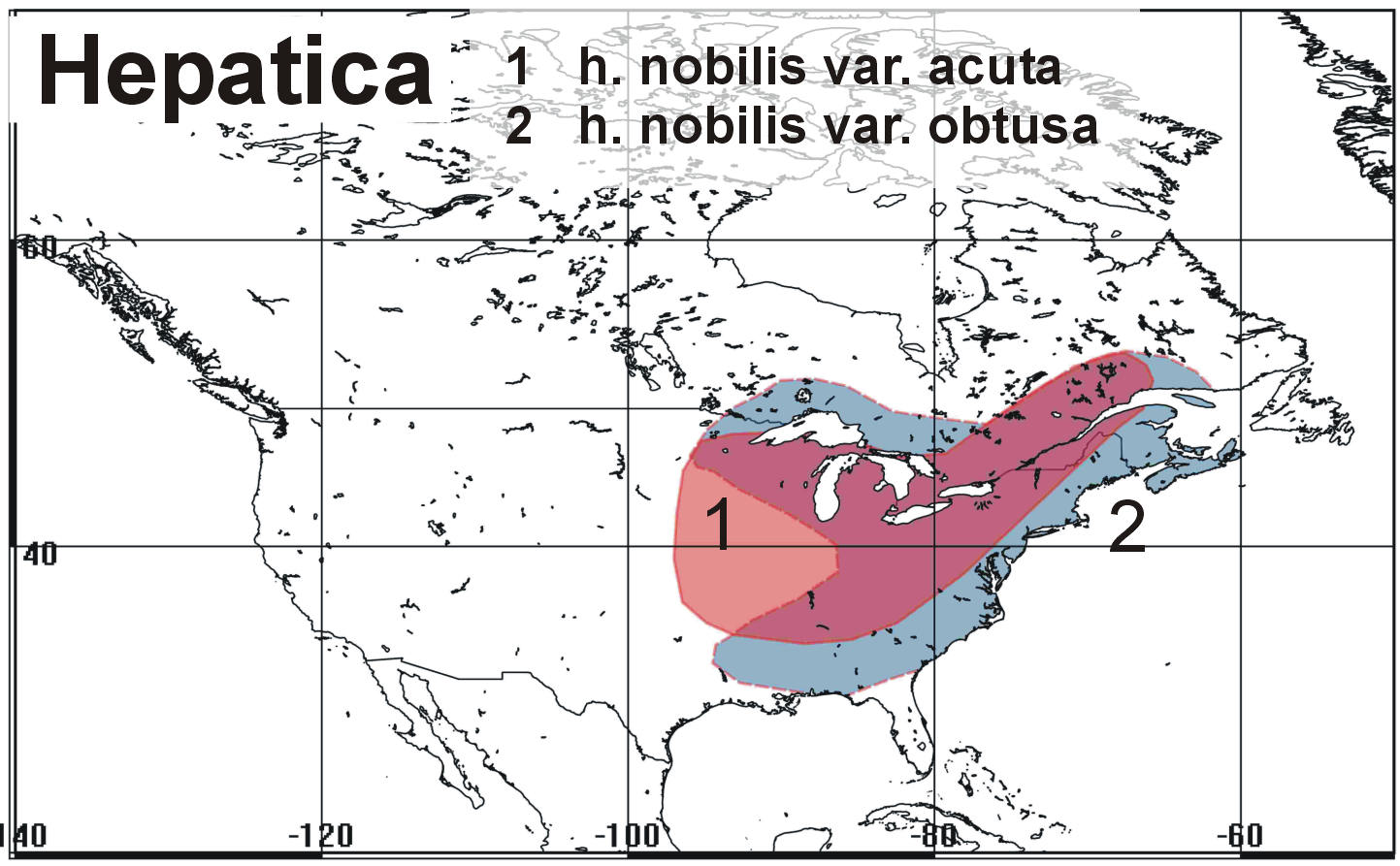 Distribution map of Hepatica species in North america. (Presumed natural spread according to different wikipedia sources)